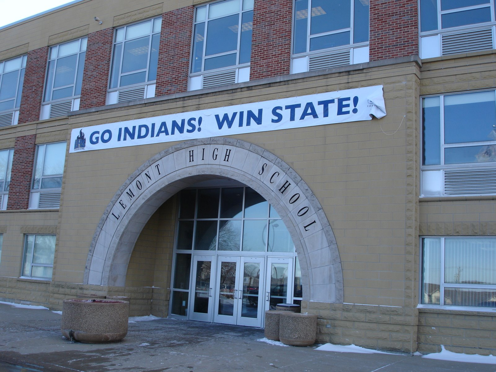 A view of the front entrance (called the "arch") of Lemont High School in Lemont, IL.